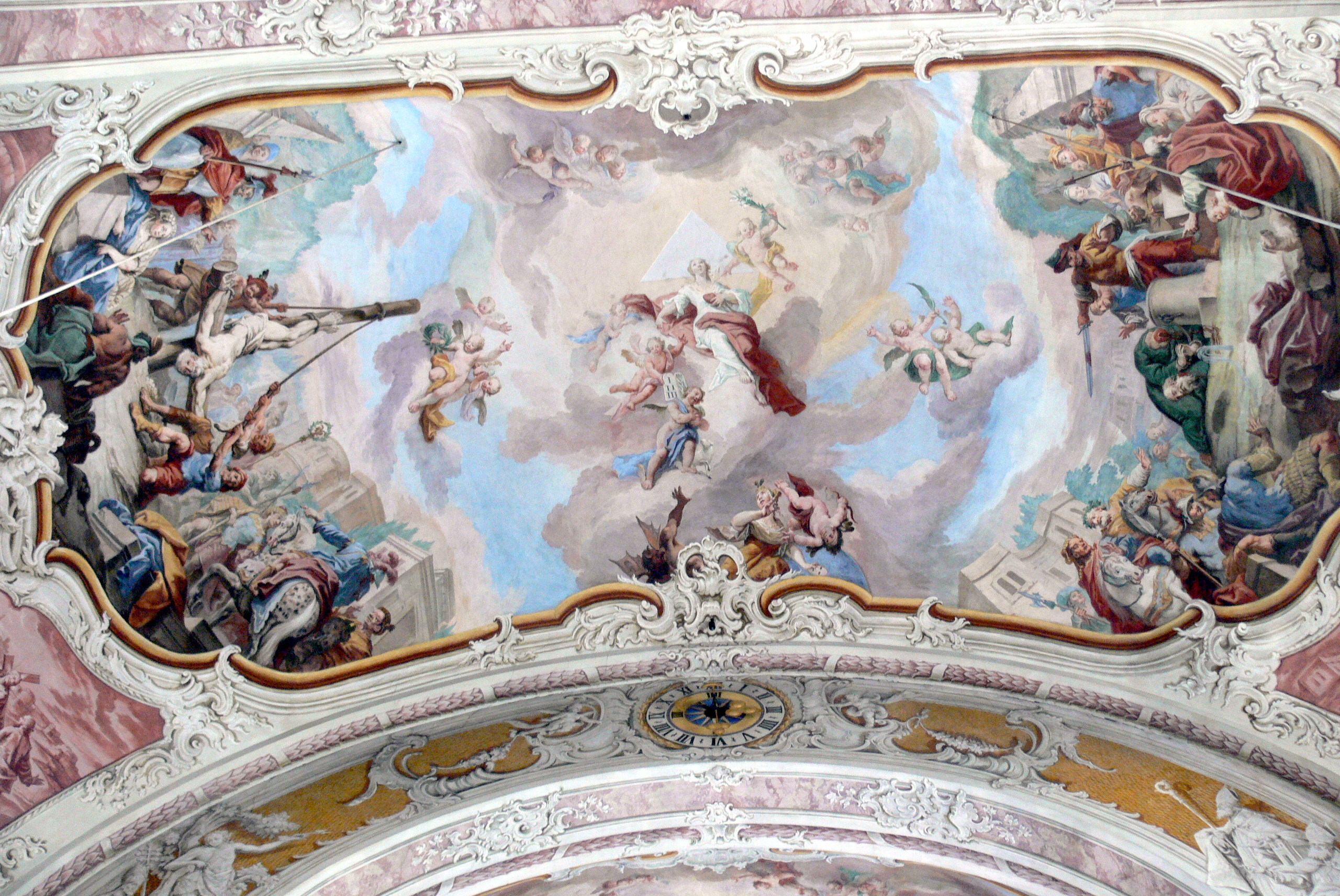 St.Peter and Paul parish church in Söll ( Tyrol ). Rococo frescos ( 1768 ) by Christoph Anton Mayr: Martyrdom of Saint Peter ( left ) and Saint Paul ( right ); in the middle an allegory of Love.